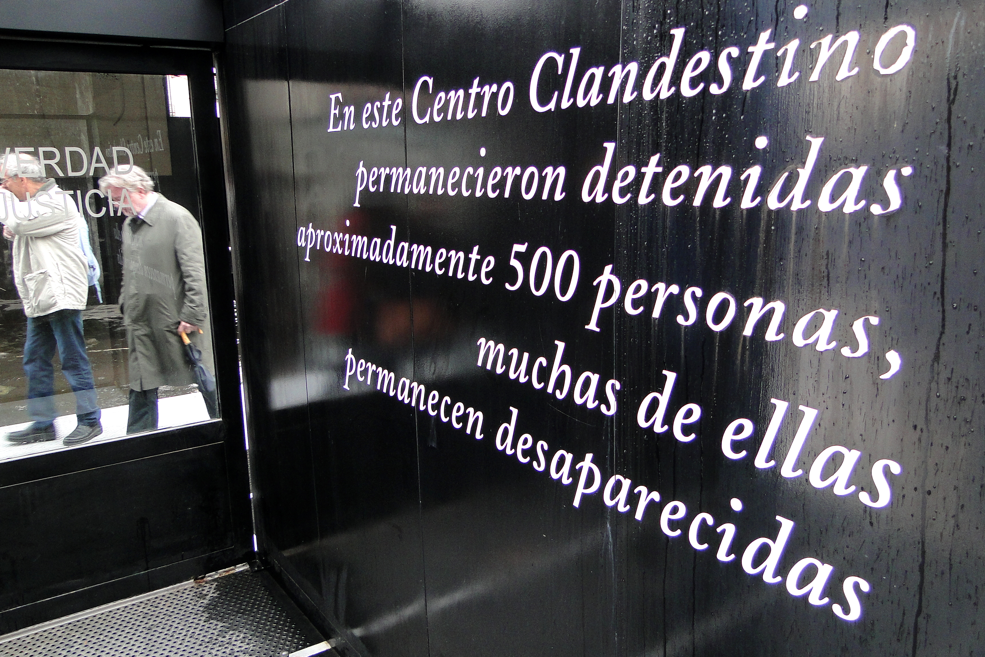 Genocide Scholars-IAGS Visitors Walk Past Memorial Sign - Olimpo Detention and Torture Center - Buenos Aires - Argentina